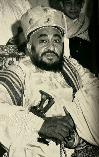 Ahmad bin Yahya Hamidaddin (1891 – 18 September 1962) was the penultimate king of the Mutawakkilite Kingdom of Yemen from 1948 to 1962. His full name and title was H.M. al-Nasir-li-din Allah Ahmad bin al-Mutawakkil 'Ala Allah Yahya, Imam and Commander of the Faithful, and King of the Mutawakkilite Kingdom of the Yemen. Ahmad was considered to be a despot, and his main focus was on modernising the military.